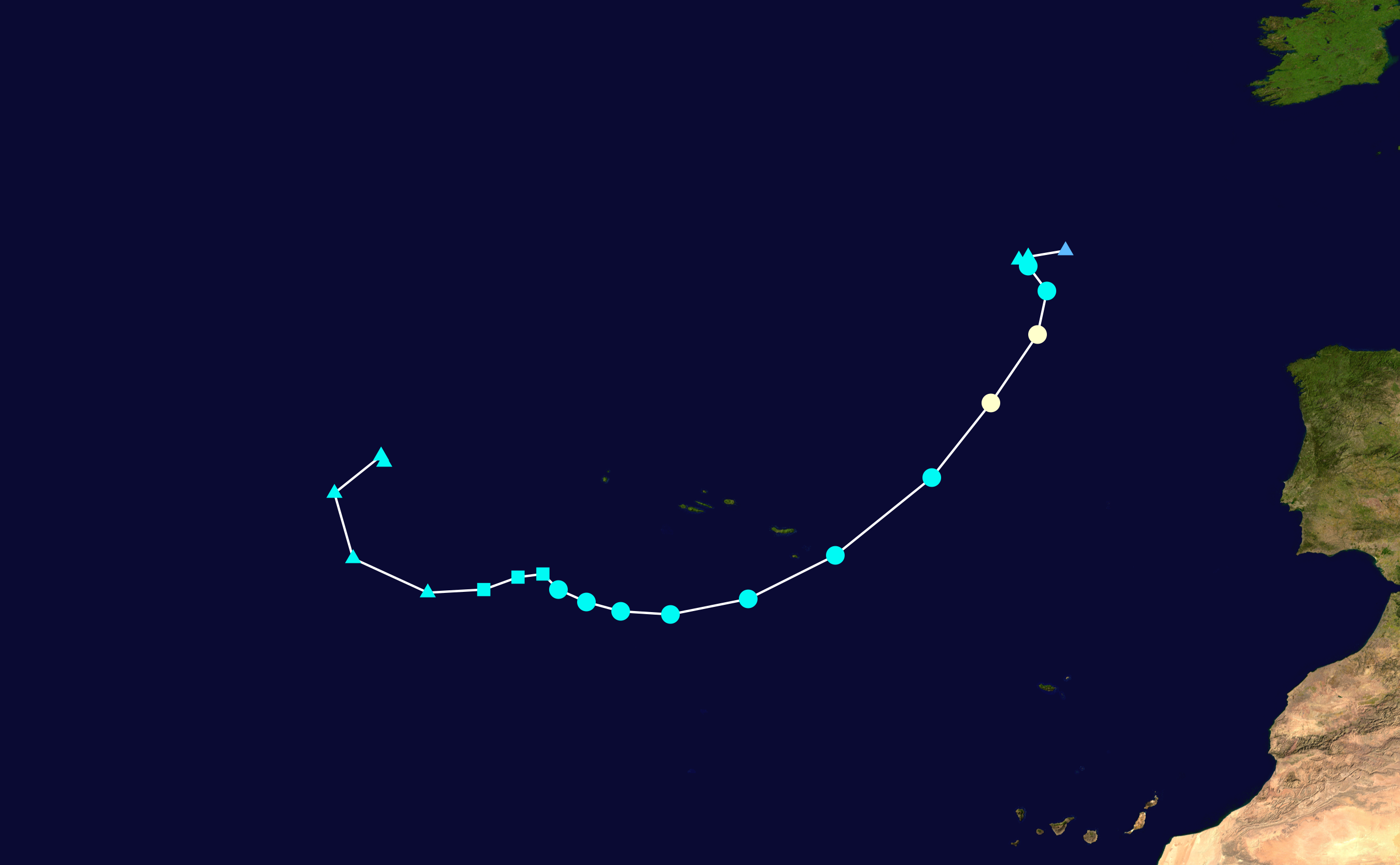 Track map of Hurricane Pablo of the 2019 Atlantic hurricane season. The points show the location of the storm at 6-hour intervals. The colour represents the storm's maximum sustained wind speeds as classified in the Saffir–Simpson scale (see below), and the shape of the data points represent the nature of the storm, according to the legend below. Saffir–Simpson scale Tropical depression≤38 mph≤62 km/h Category 3111–129 mph178–208 km/h Tropical storm39–73 mph63–118 km/h Category 4130–156 mph209–251 km/h Category 174–95 mph119–153 km/h Category 5≥157 mph≥252 km/h Category 296–110 mph154–177 km/h Unknown Storm type Tropical cyclone Subtropical cyclone Extratropical cyclone / Remnant low / Tropical disturbance / Monsoon depression